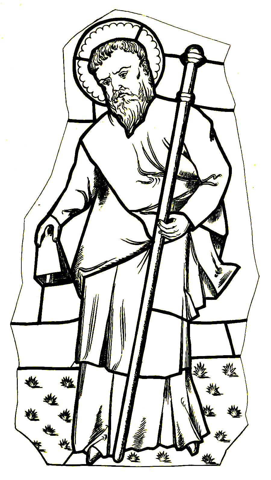 A 19th-century sketch of a 15th-century stained-glass image of Saint Aelhaiarn at Plogonnec in Brittany. The sketch was made for the Cambrian Archæological Association and was reprinted in Baring-Gould's Lives of the British Saints, p. 111.